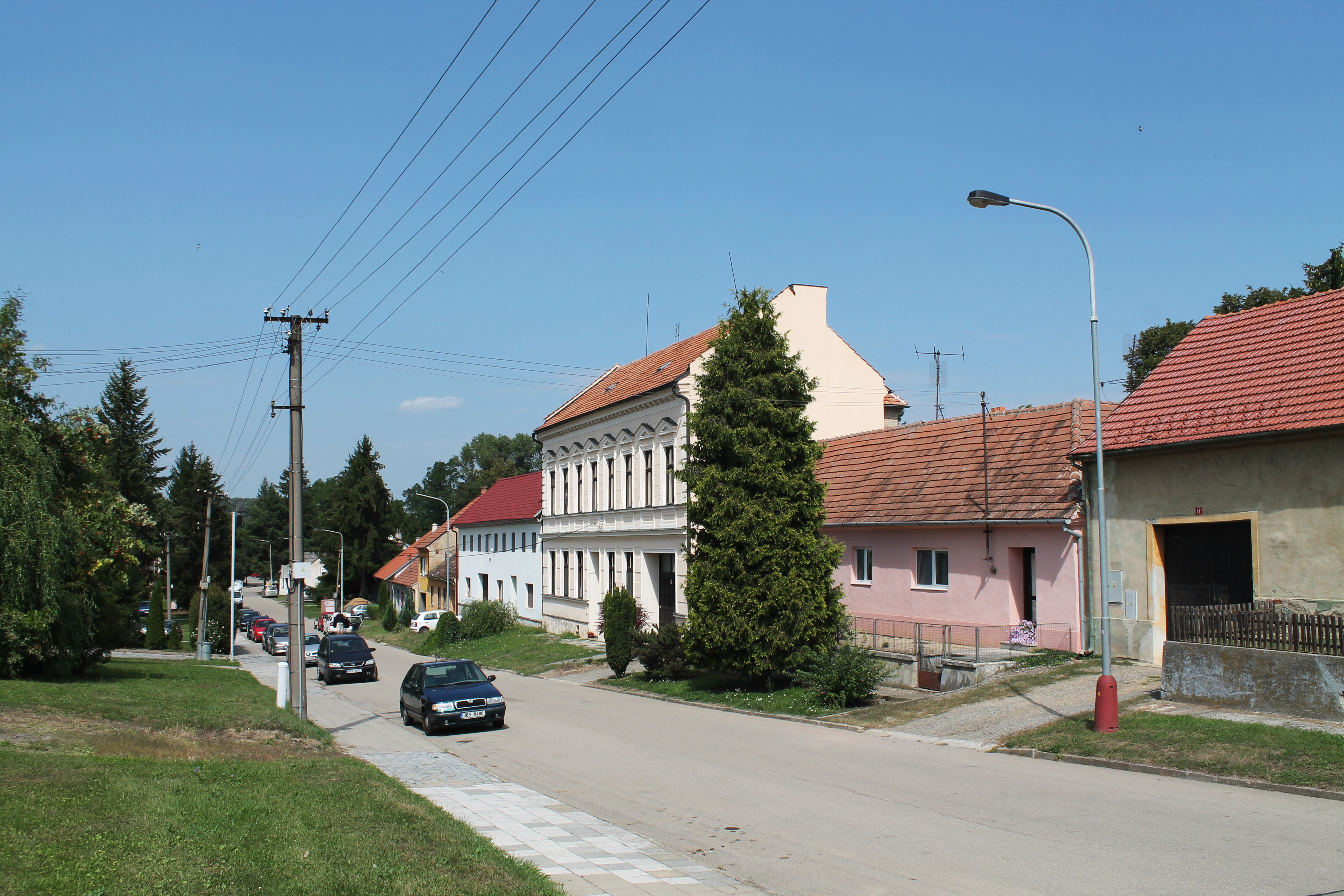 Čechyně, Rousínov, Vyškov District, Czech Republic